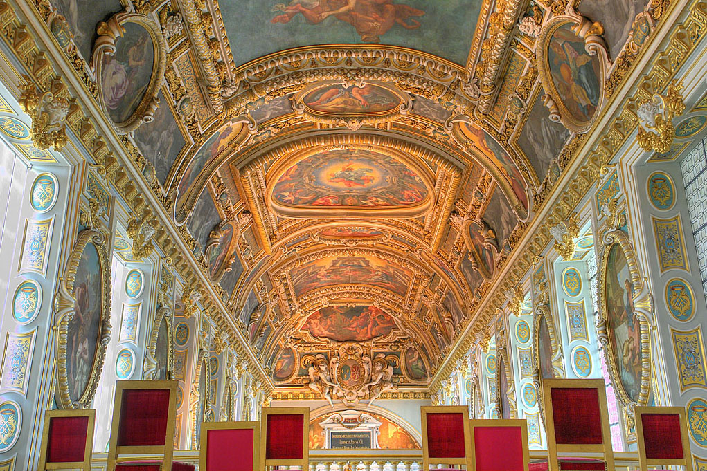 ceiling of the chapelle de la trinité, Fontainebleau castle, Fontainebleau, France